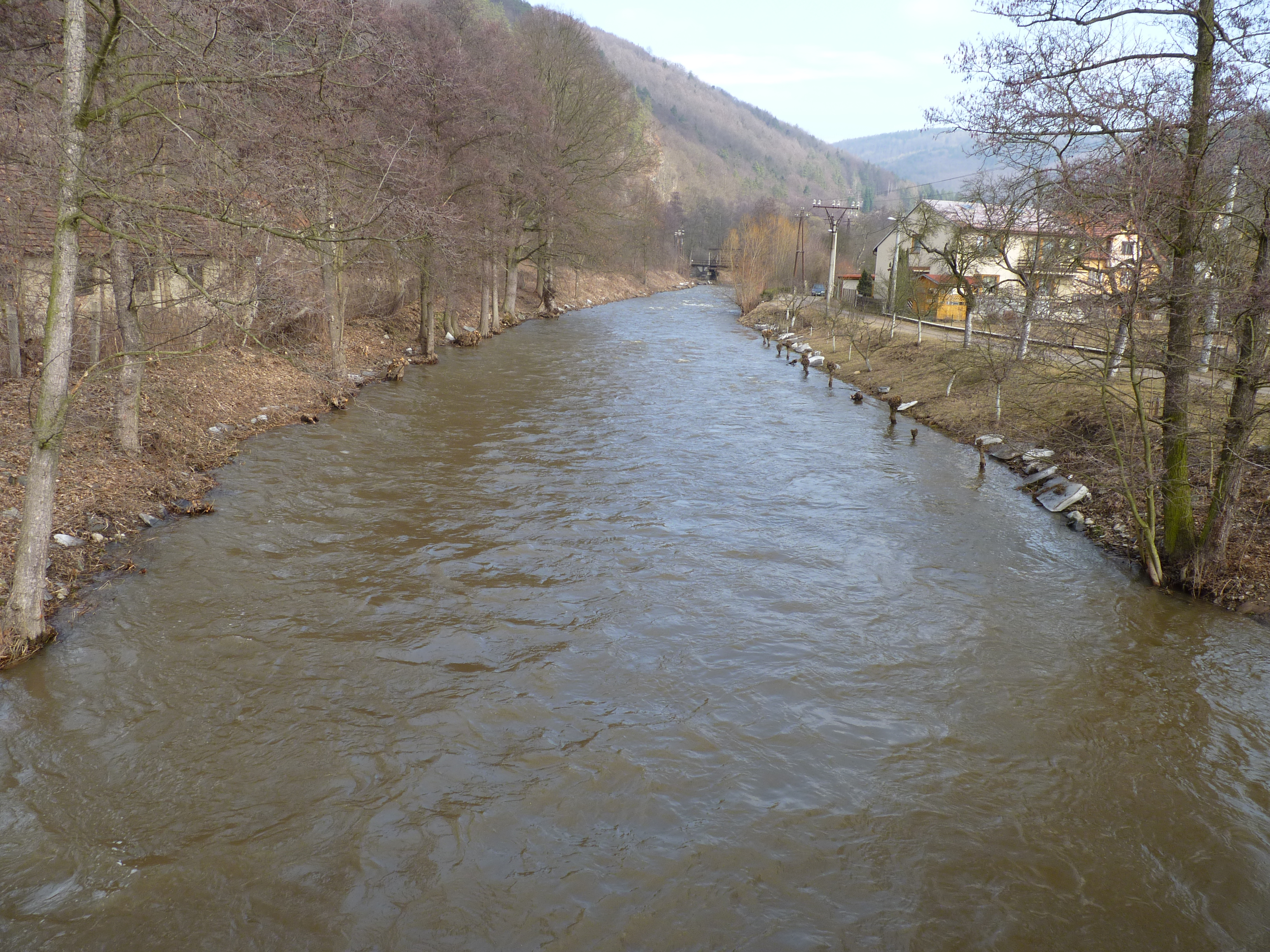 Borač. Brno-Country District, South Moravian Region, Czech Republic